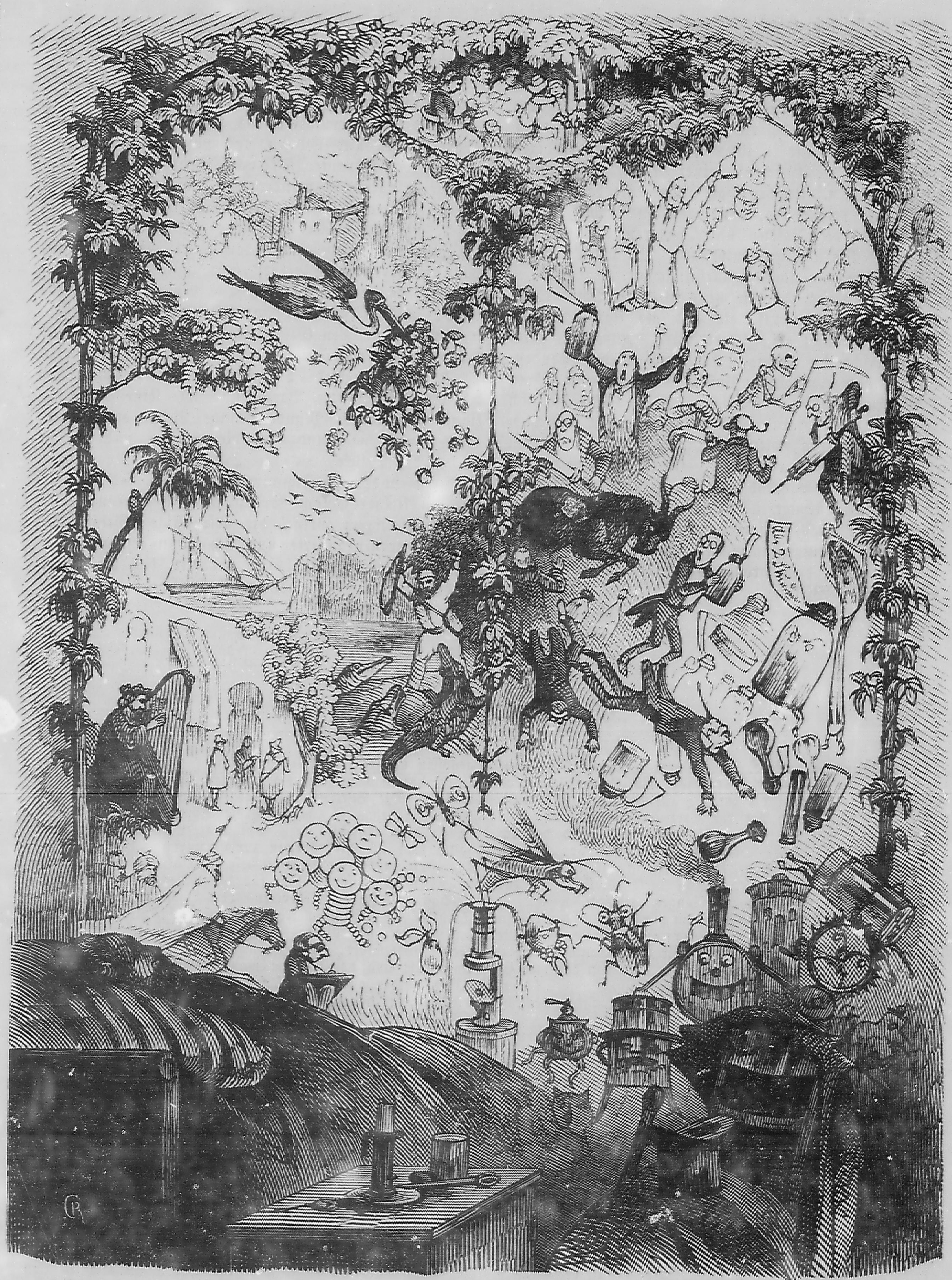 caption: "Der Traum eines Lesers der Gartenlaube."